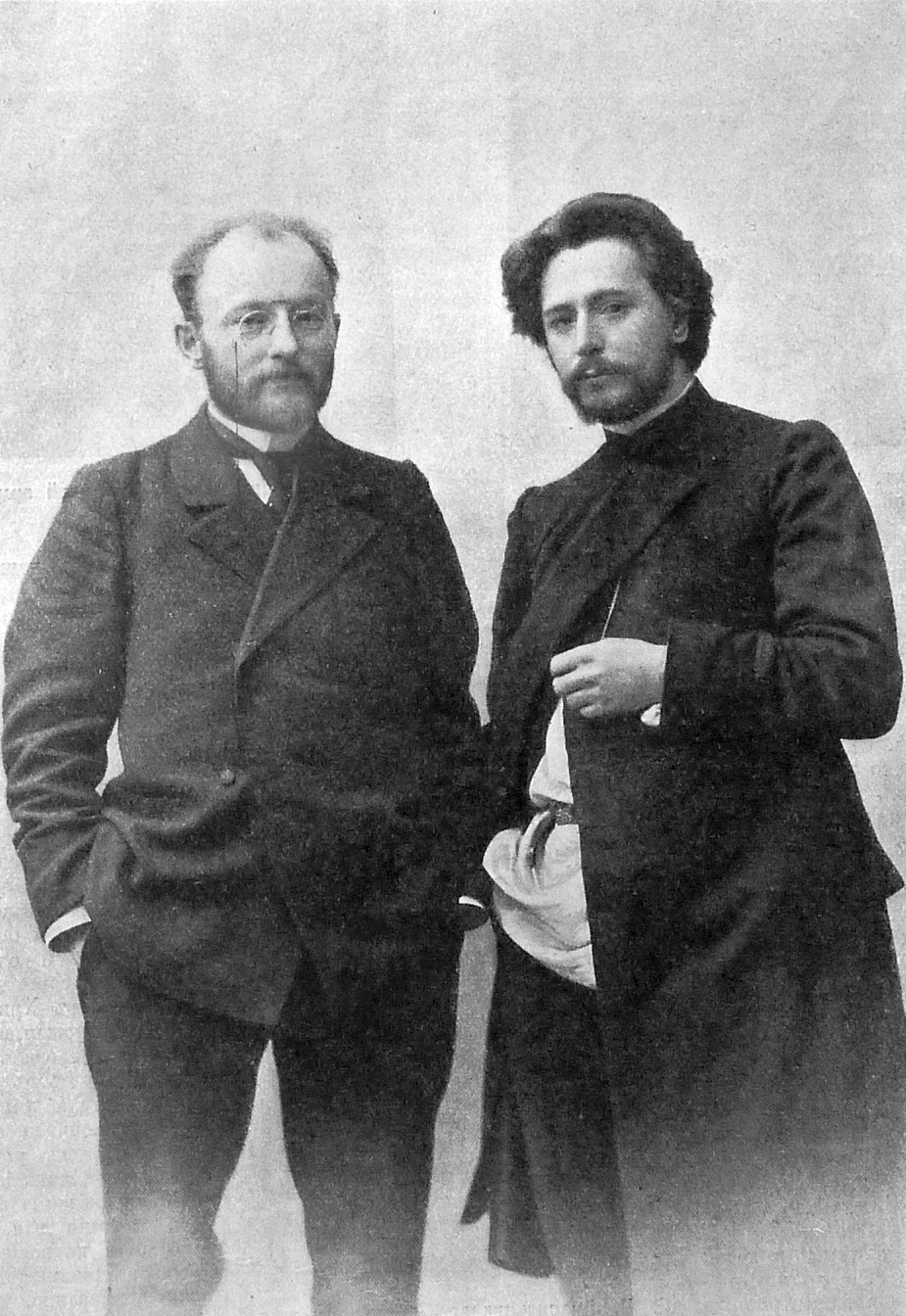 Leonid_Andreev and Veresaev.jpg